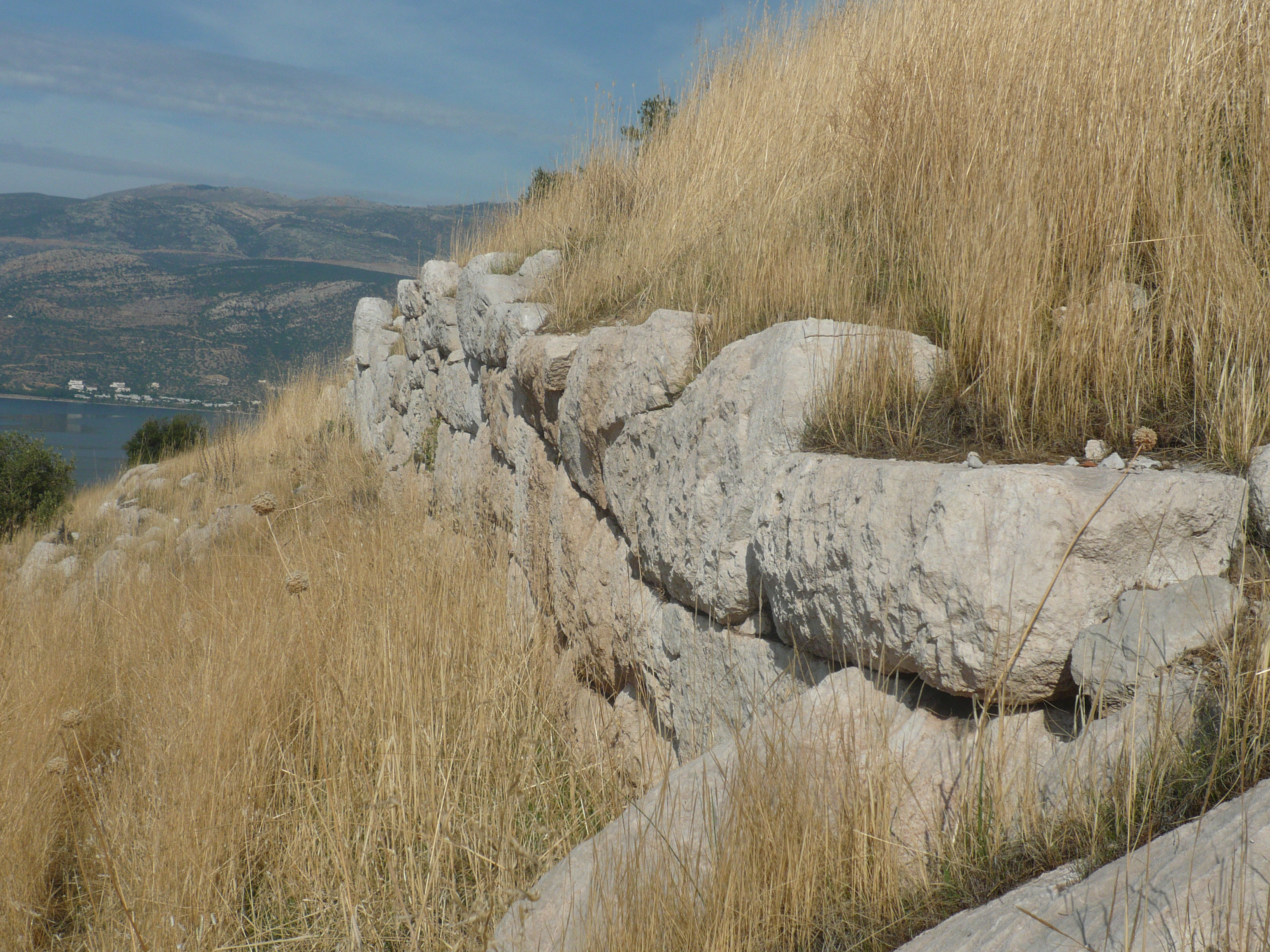 Acropolis of Medeon, Boeotia, Greece